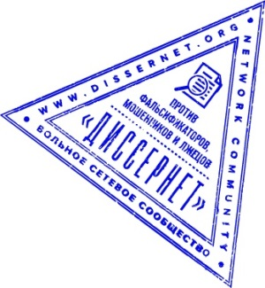 Logo the the Dissernet voluntary networking community